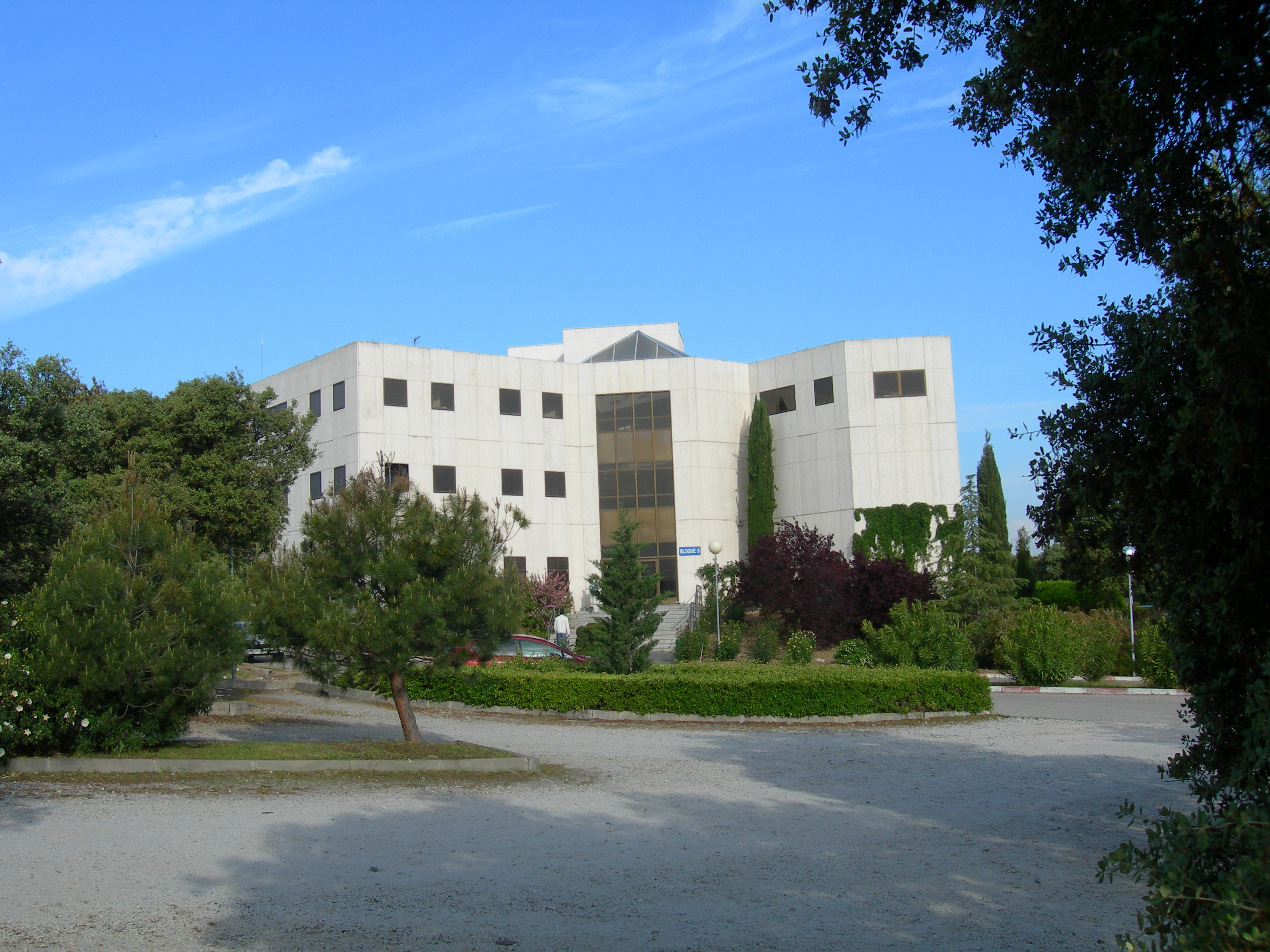 Technical University of Madrid (UPM), Spain. Computer Science Faculty. "Block 5"